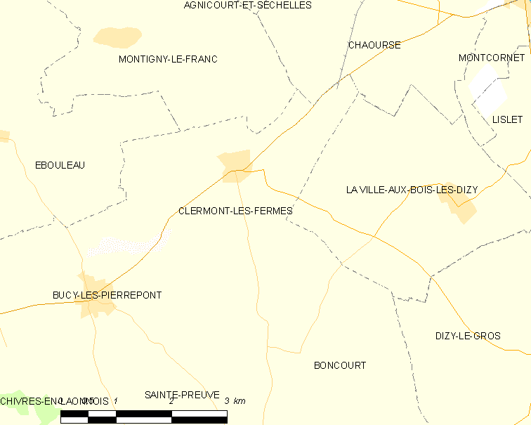 Map of French commune: Clermont-les-Fermes Map commune FR insee code 02200.png